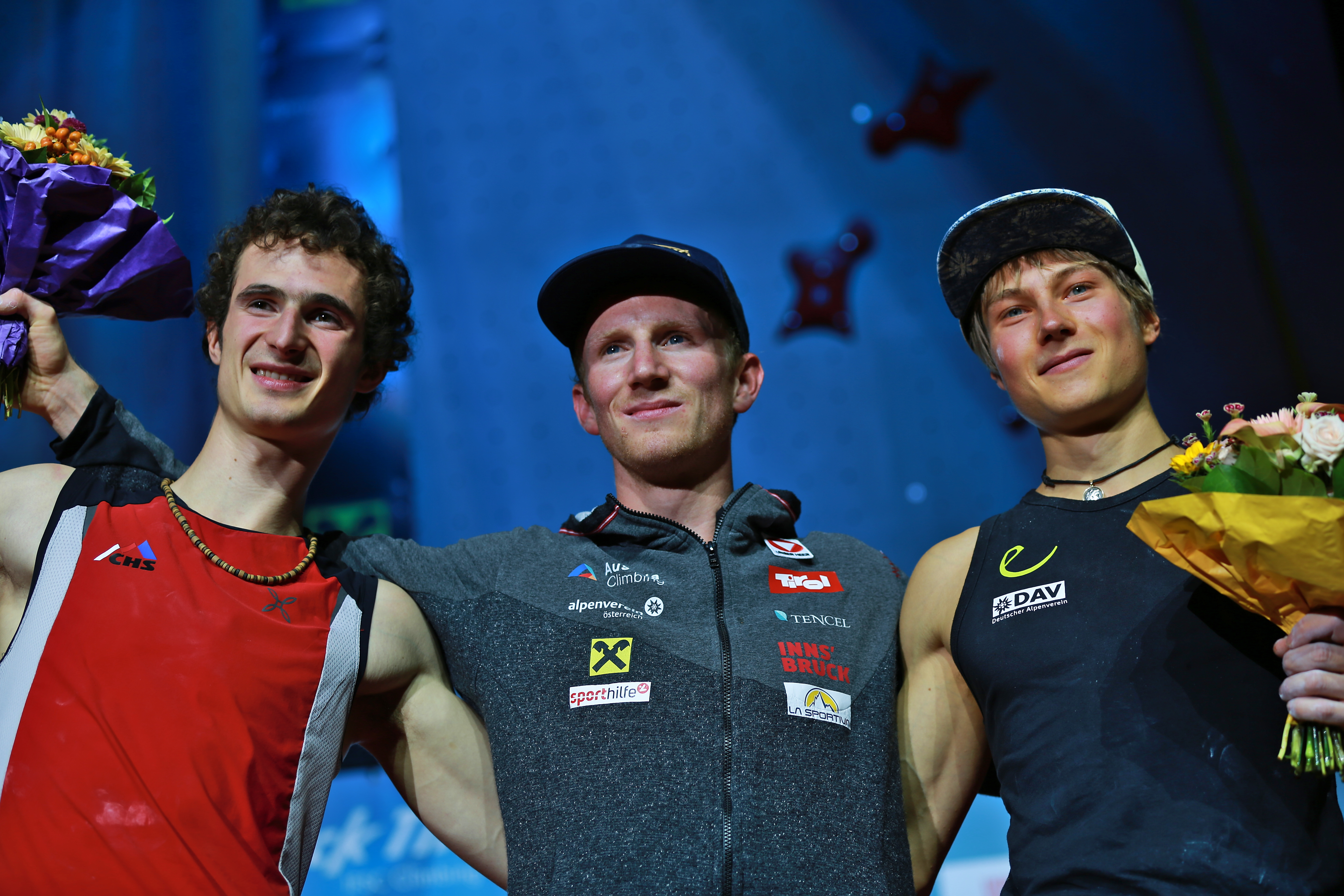 IFSC Climbing World Championships Innsbruck 2018 Final MAN lead – winners 2nd Adam Ondra (left), 1st Jakob Schubert (middle), 3rd Alexander Megos (right)